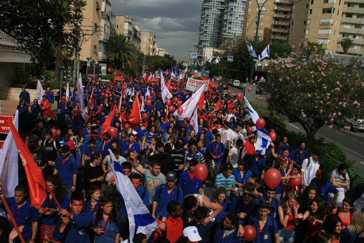 HaNoar HaOved VeHaLomed 1st of may march, 2011 - 90 tears to the Histadrut, Tel-Aviv Israel